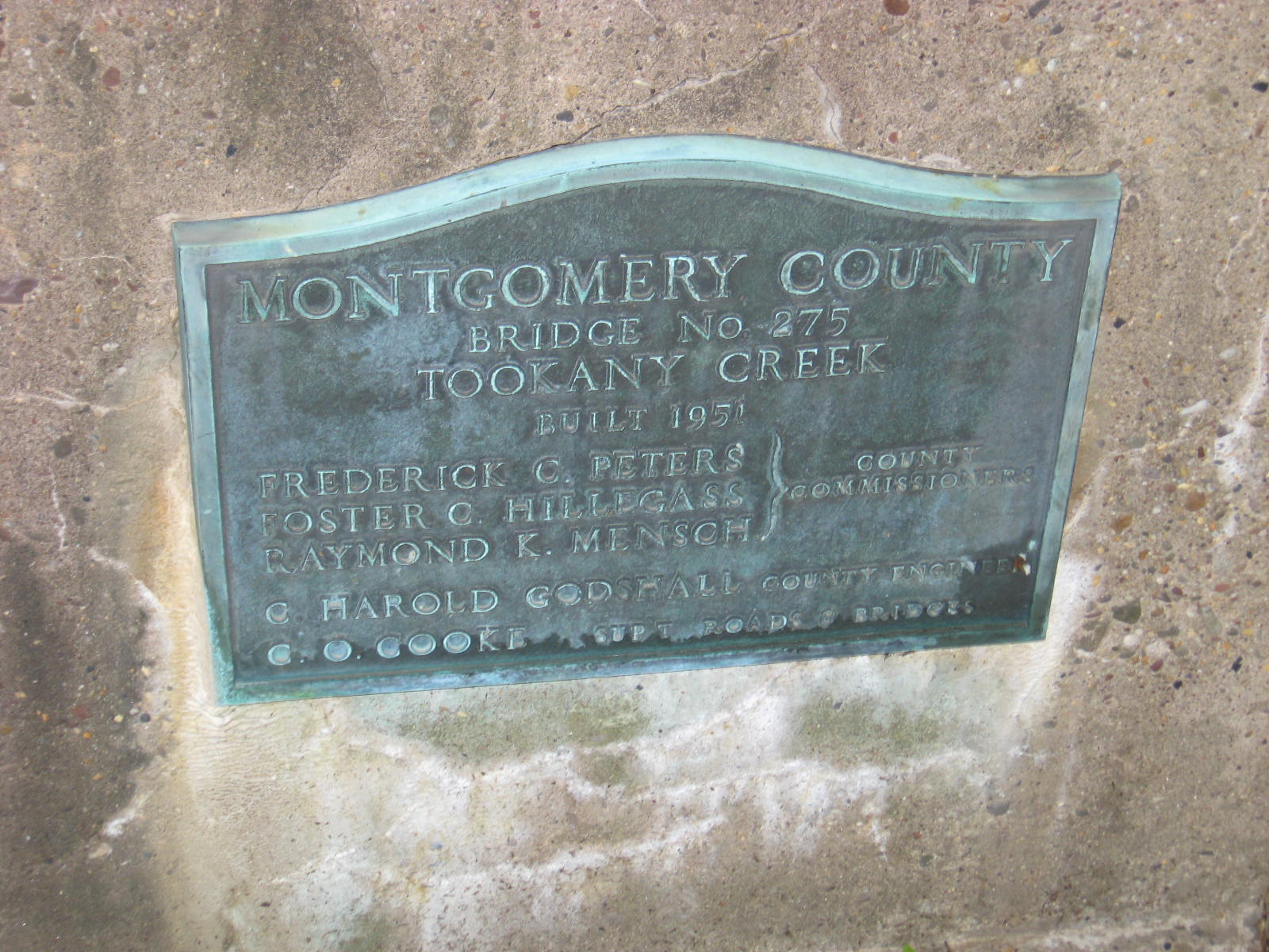 Plaque on a Tookany Creek Crossing